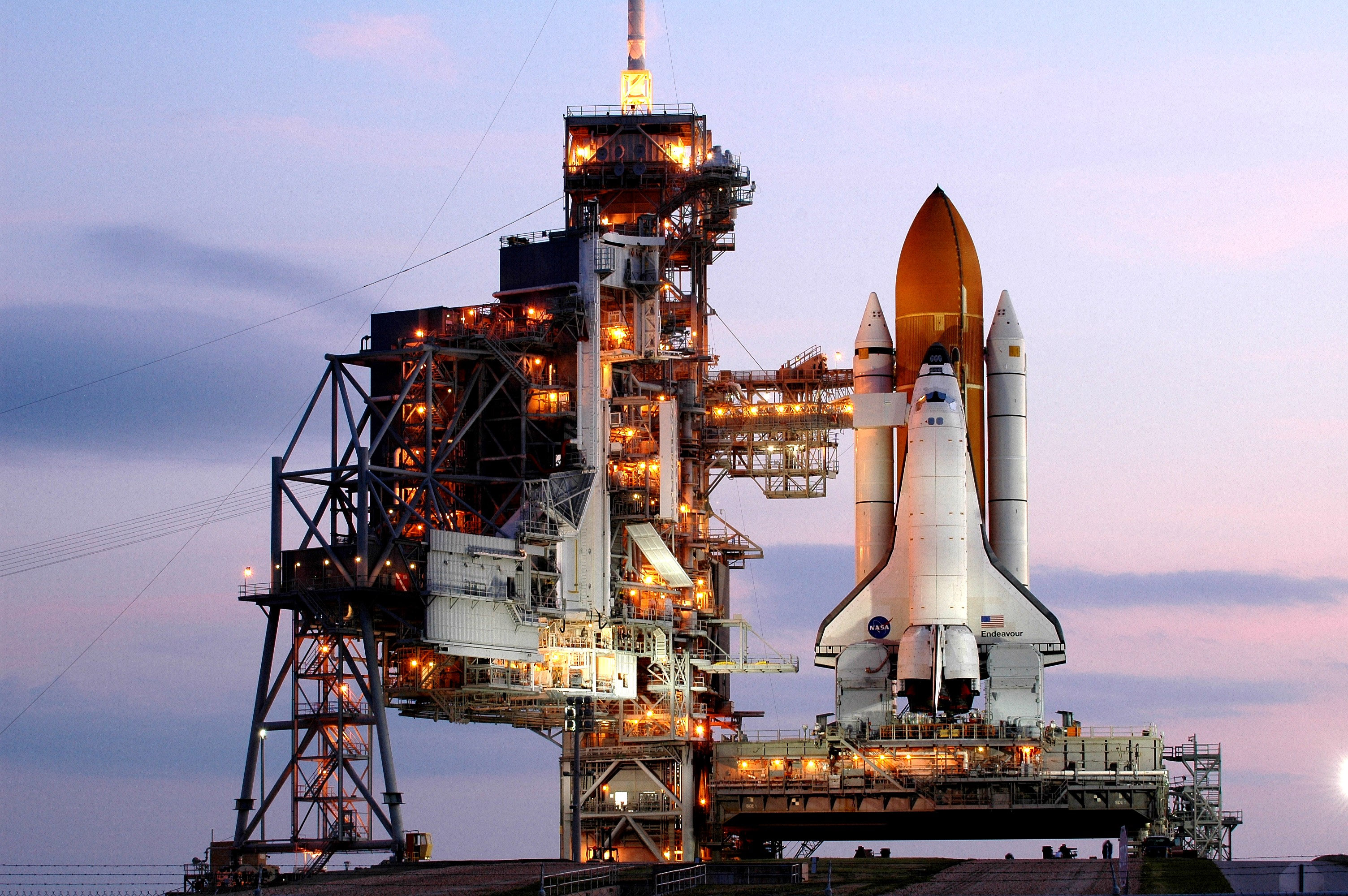 Kennedy Space Centre, Florida - Space Shuttle Endeavour arrives at launchpad 39A at the Kennedy Space Centre in preparation for the STS-118 mission to the International Space Station.